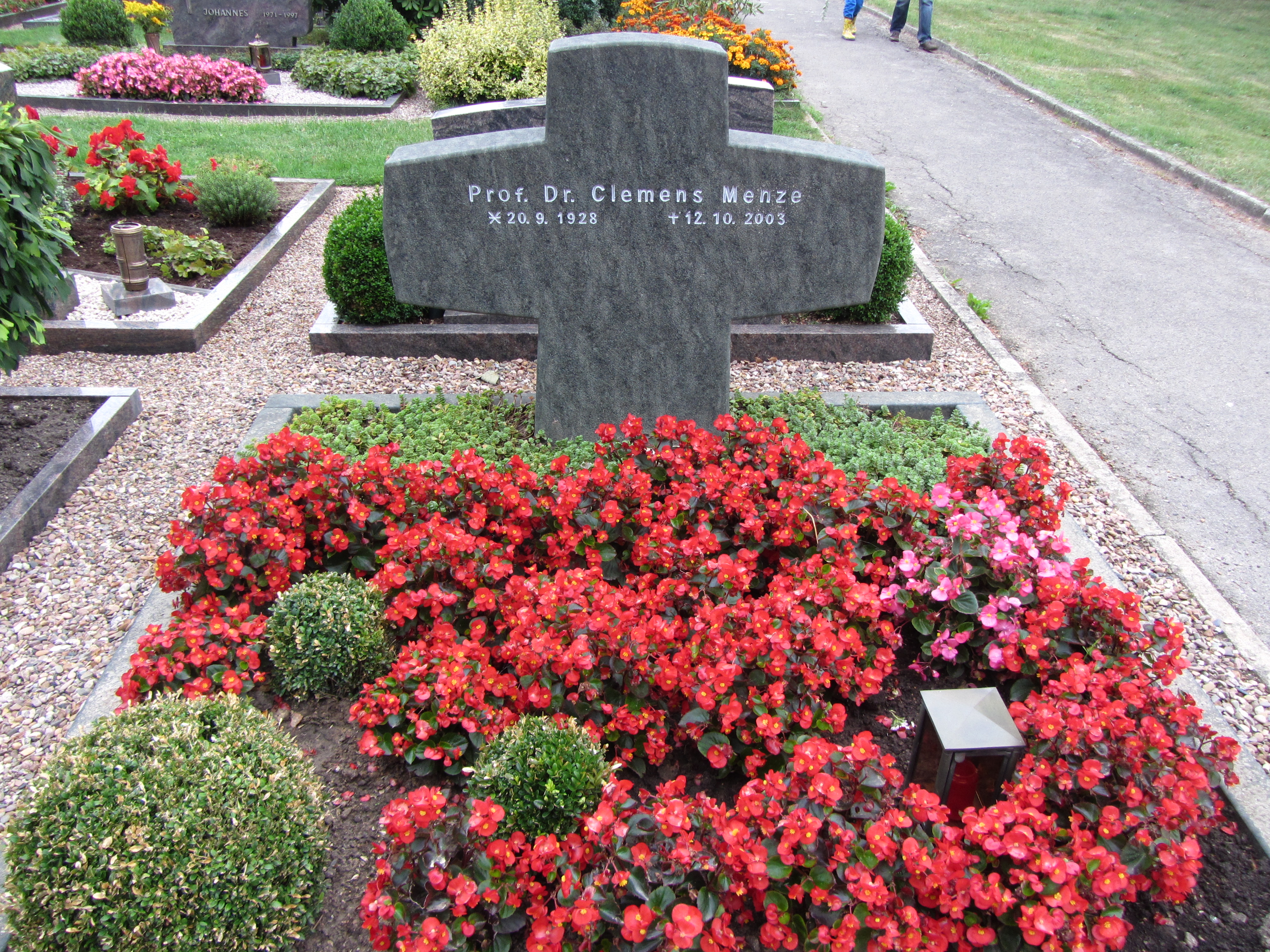 Text